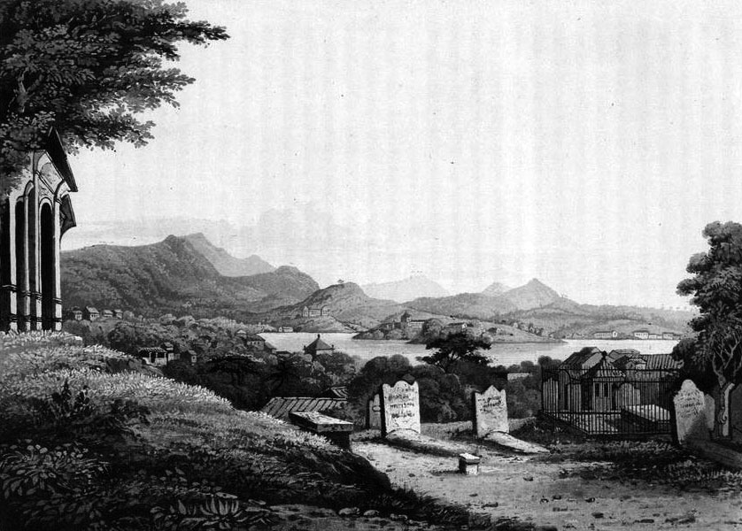 The English Burial Ground, Praya de Gamboa, Rio de Janeiro, drawn by Maria Graham (Maria Callcott) in 1823, One of several illustrations in her book Journal of a voyage to Brazil, and residence there, during part of the years 1821, 1822, 1823.